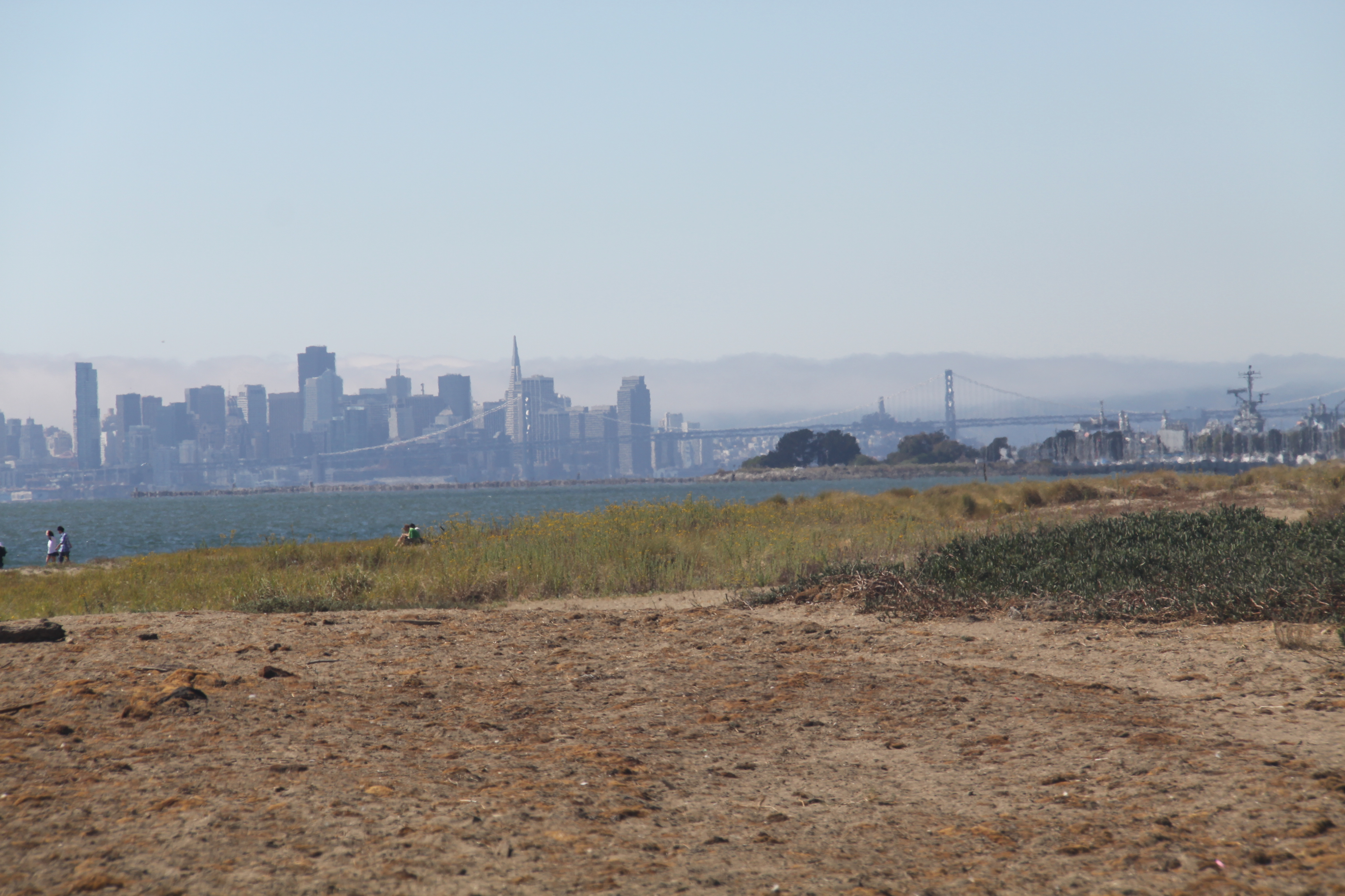 View of Crown Memorial State Beach in Alameda looking towards the city of San Francisco, CA, USA.